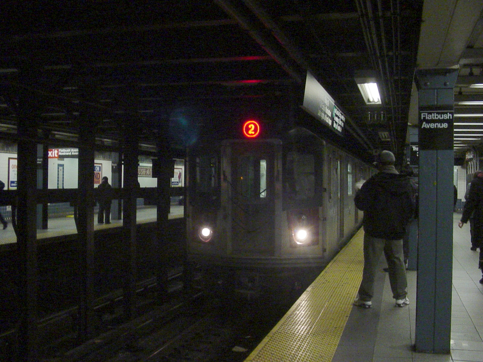 A en:2 (New York City Subway service) train arrives at the Brooklyn College – Flatbush Avenue (IRT Nostrand Avenue Line) station, northbound track